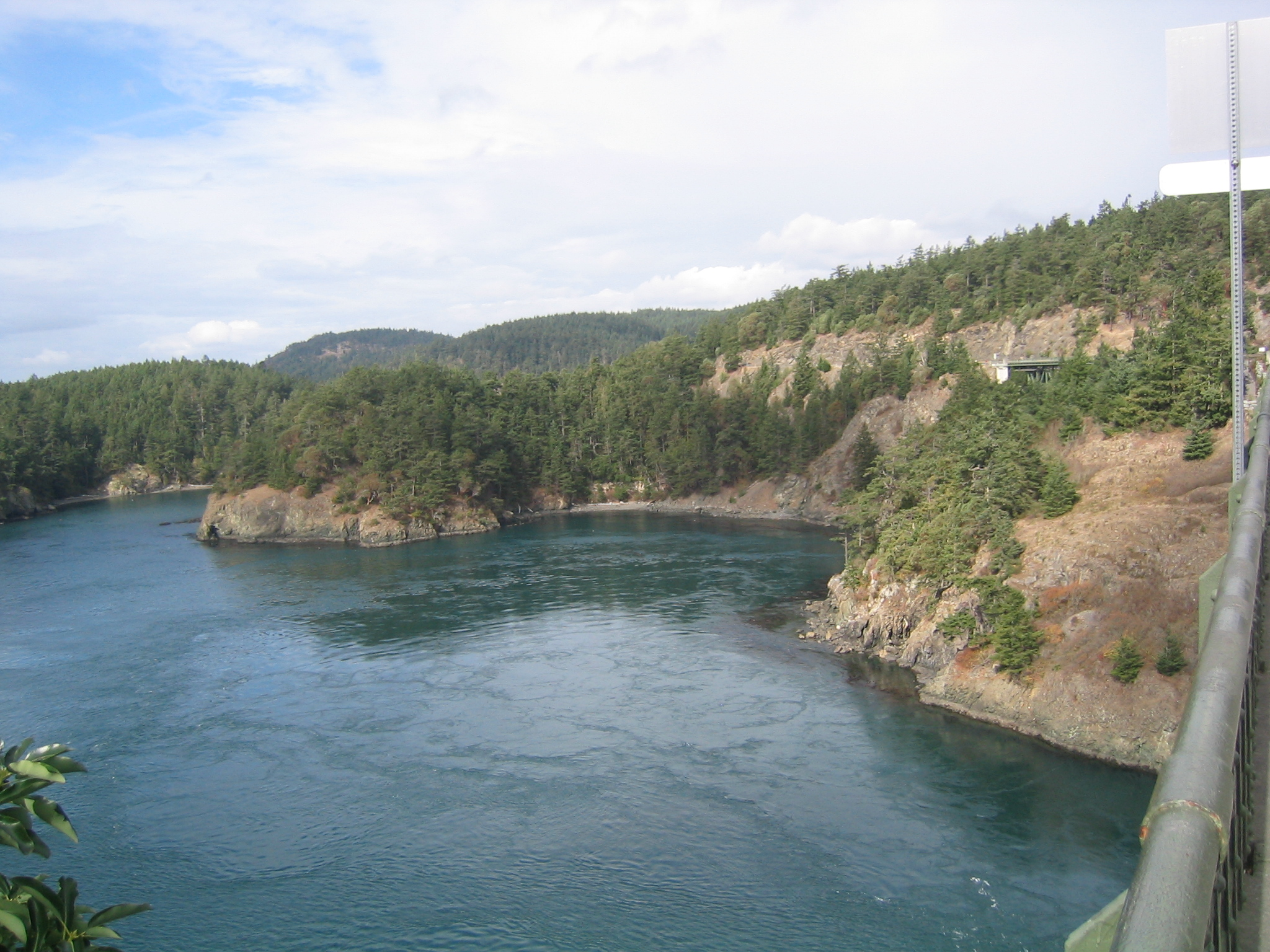 Picture from Deception Pass on a sunny day looking northwest